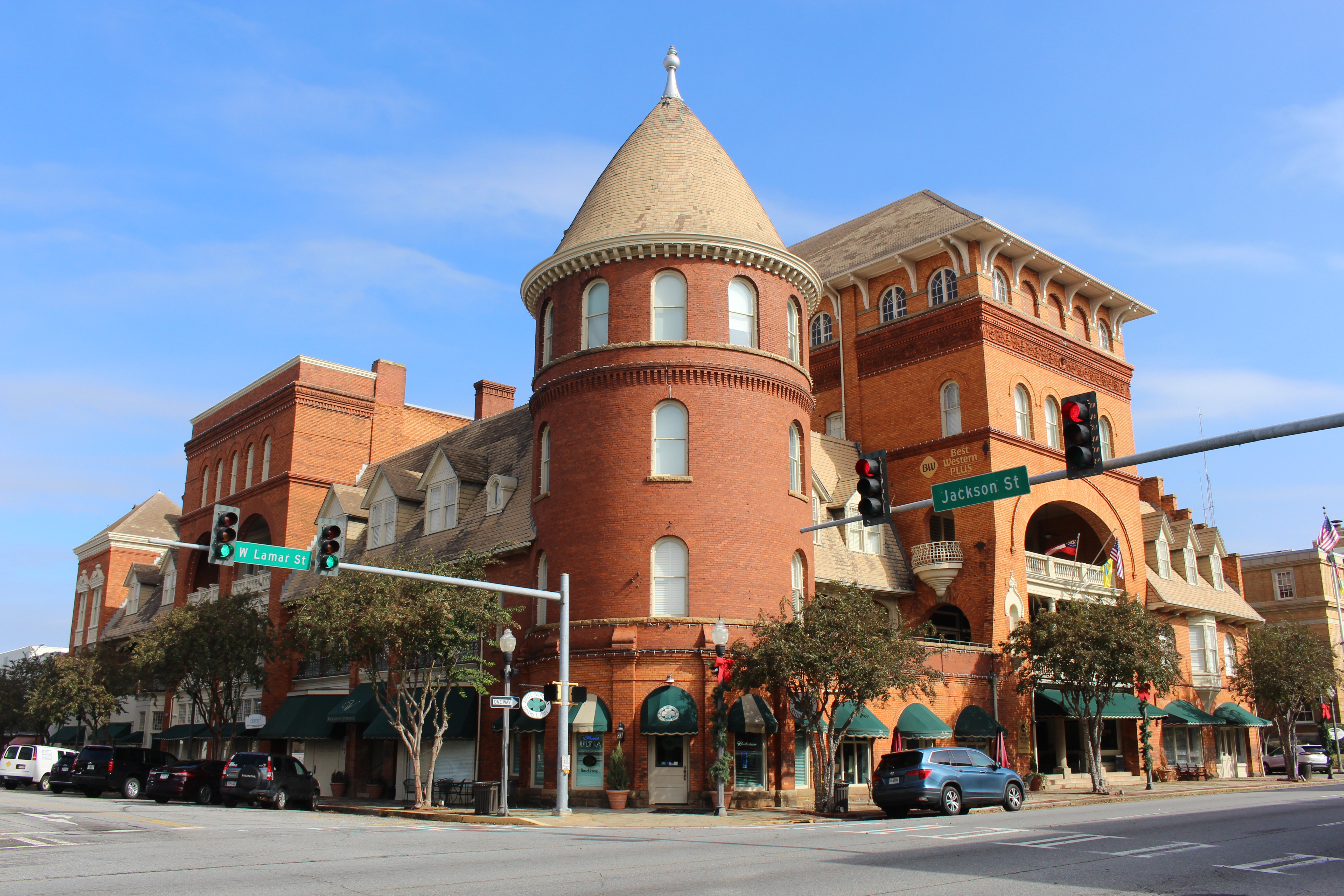 Windsor Hotel, Americus, Sumter County, Georgia